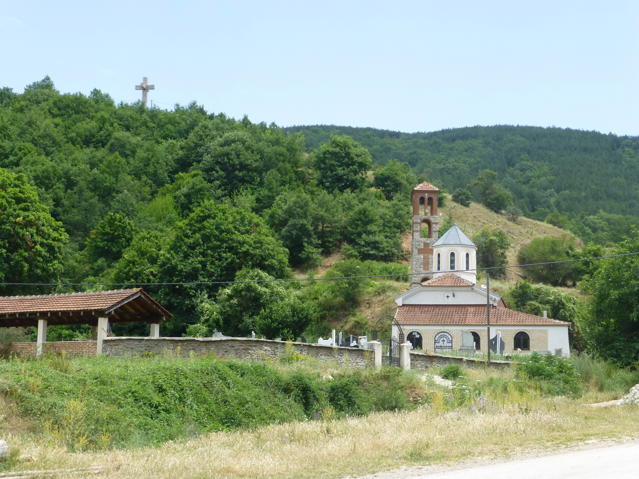 Around Lera Village (near the southern end of Lake Streževo).